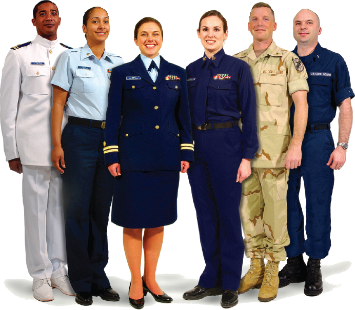 Cover from the uniform special edition of "Reservist" magazine. Shows many types of U.S. Coast Guard uniforms.